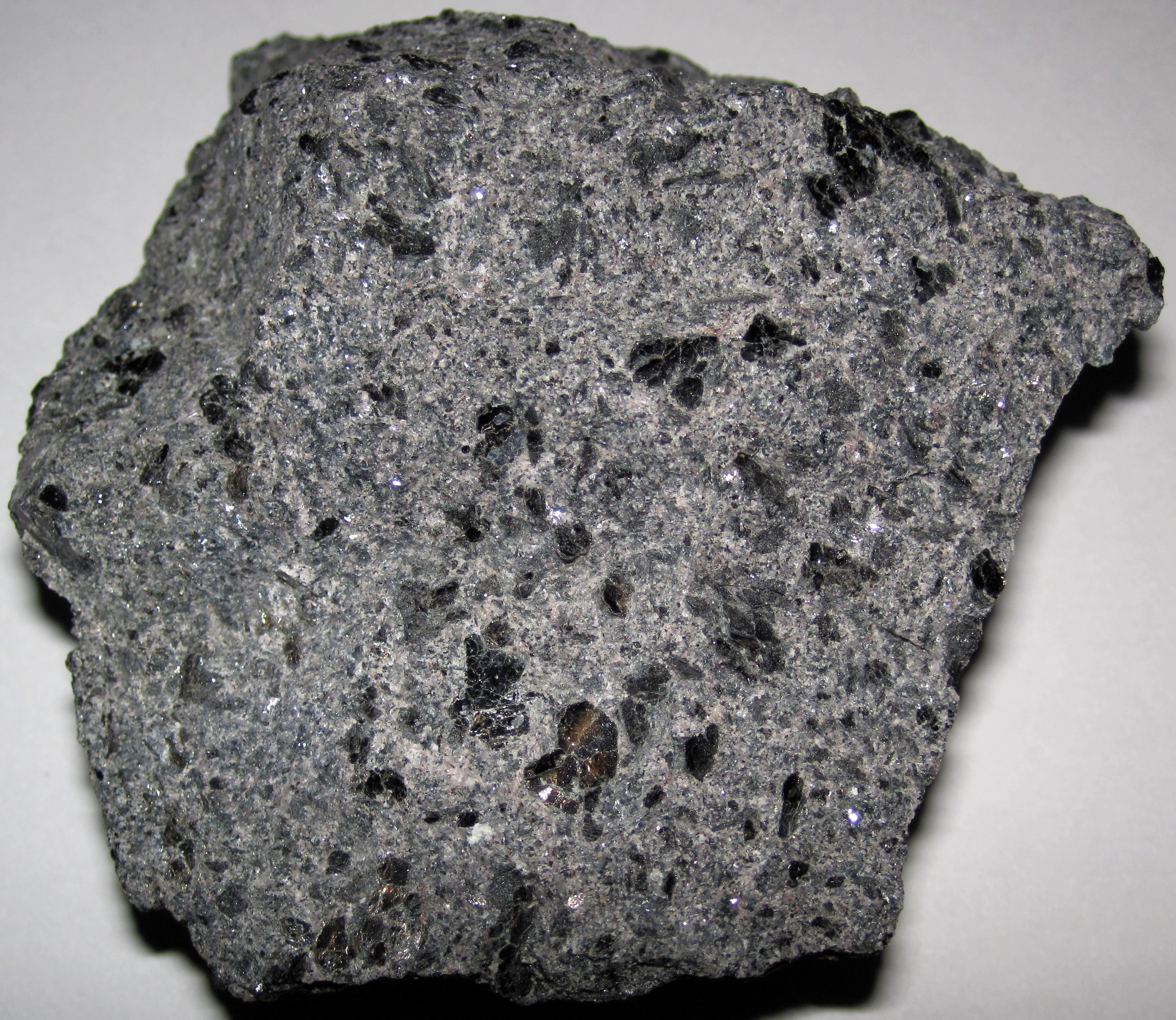 Shonkinite (Mountain Pass Alkaline Suite, Mesoproterozoic, 1.40-1.41 Ga; Mountain Pass Rare Earth Element District, California, USA) 3 Shonkinite from the Precambrian of California, USA. (7.4 centimeters across at its widest) This is a rare intrusive igneous rock called shonkinite from Mountain Pass, California. Mountain Pass shonkinites are ultrapotassic, porphyritic phlogopite melanosyenites (a.k.a. melasyenites - "melano-" or "mela-" refers to a dark-colored variety of syenite). Syenite has a chemical composition between granite's felsic chemistry and gabbro's mafic chemistry. Syenite is an example of an intermediate igneous rock, which has 52 to 65% silica (= SiO2 chemistry) (intermediate has also been defined as 55 to 65% silica). Intermediate igneous rocks are sometimes light-colored, sometimes dark-colored, and sometimes have medium colors. Dark-colored syenite is called "melanosyenite". The mineral content of syenite is dominated by feldspar with little to no quartz. Syenite is alkali feldspar-rich, with little to no plagioclase feldspar. The minor plagioclase feldspar component is often intergrown with the alkali feldspar to form perthite. Mafic minerals may be present - amphibole, pyroxene, and biotite mica. Mountain Pass shonkinite is dominated by three minerals: 1) pinkish- to purplish-colored microperthitic microcline feldspar 2) mica that ranges from barium-rich & titanium-rich fluor-phlogopite to biotite 3) augite pyroxene or aegirine pyroxene Geologic unit: Mountain Pass Alkaline Suite, early Mesoproterozoic, 1.40 to 1.41 Ga Locality: outcrop ~2 air miles southeast of the Mountain Pass Mine, Mountain Pass Rare Earth Element District, Ivanpah Mountains, northeastern San Bernardino County, southeastern California, USA (vicinity of 35° 27' 25.78" North latitude, 115° 30' 51.51" West longitude)